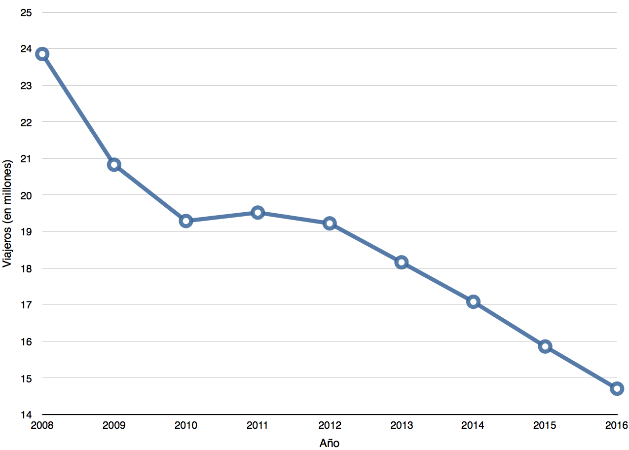 Gráfico de viajeros de Renfe Cercanías Valencia desde el 2008 hasta el 2015